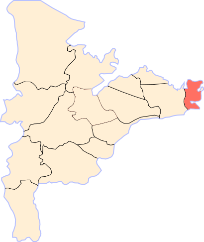 Location of Matareya, Dakahliya.